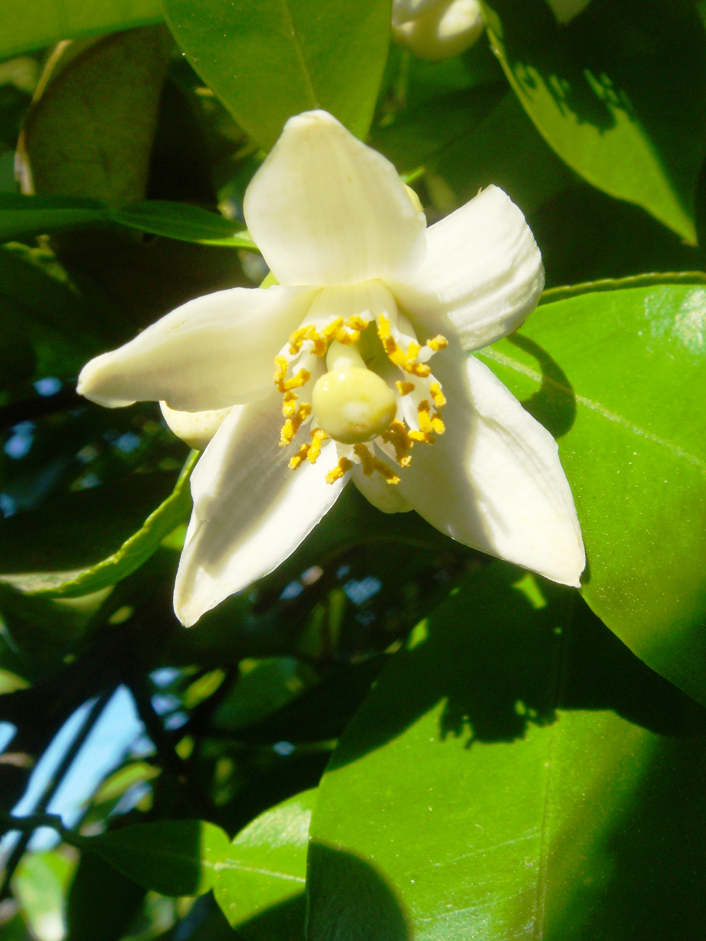 Citrus sinensis, cultivated, private residence, Phoenix, Arizona